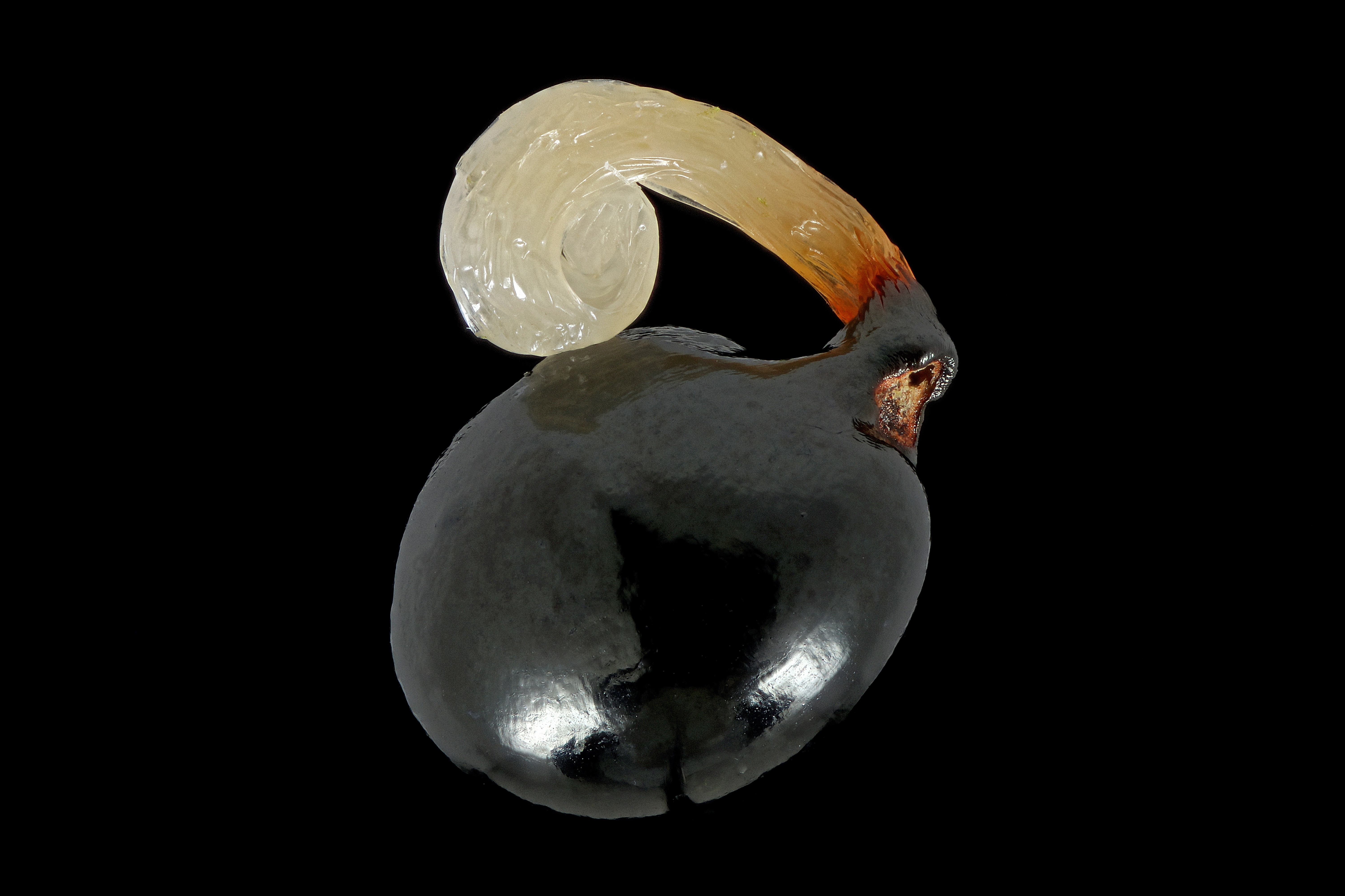 Seed of Corydalis cava (Papaveraceae) with a white or yellowish appendage called an elaiosome. This fat body attracts ants, which carry the seed to their nest. Seed dispersal by ants is known as myrmecochory.